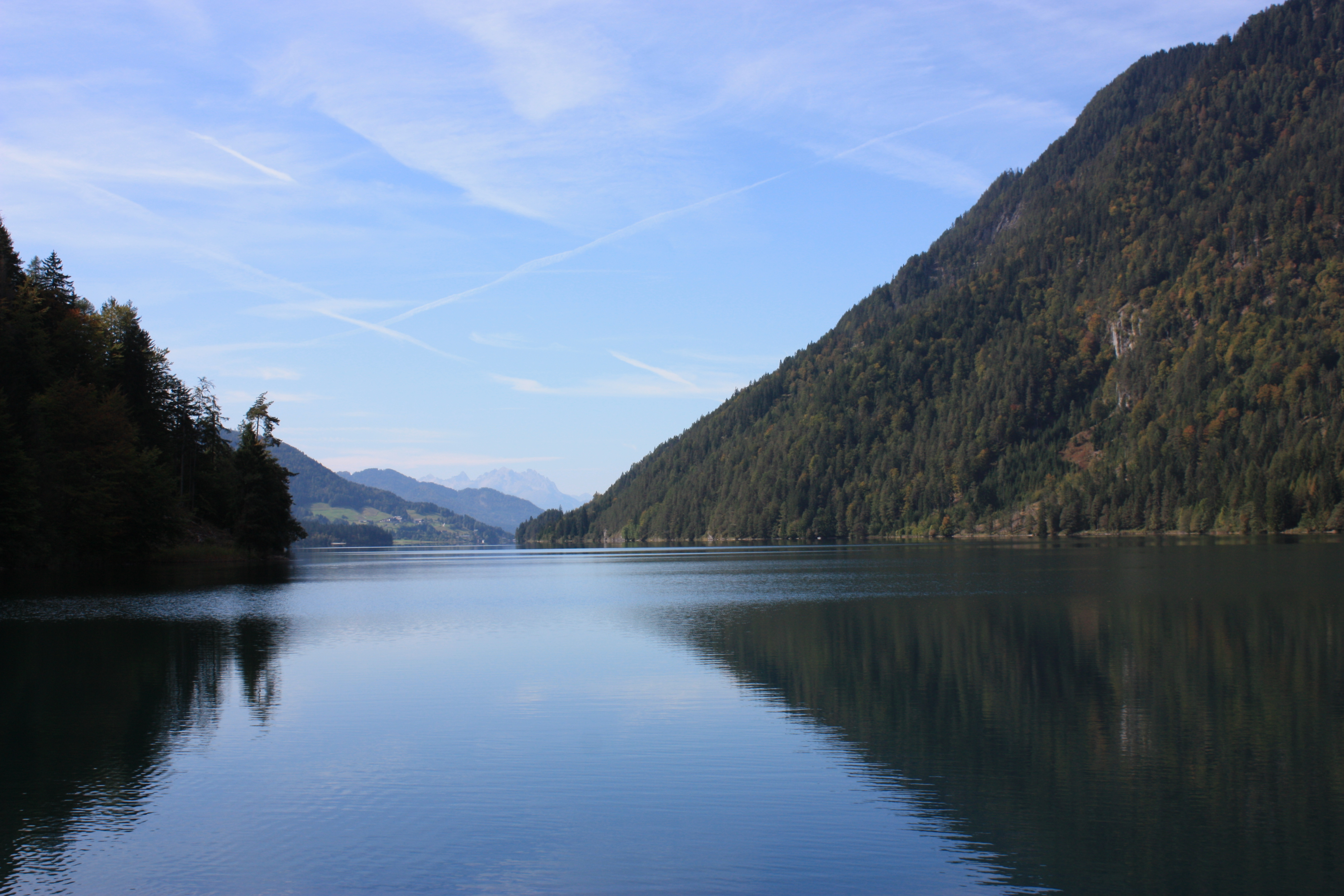 Lake Weißensee - Eastside Locality:Stockenboi Community:Stockenboi